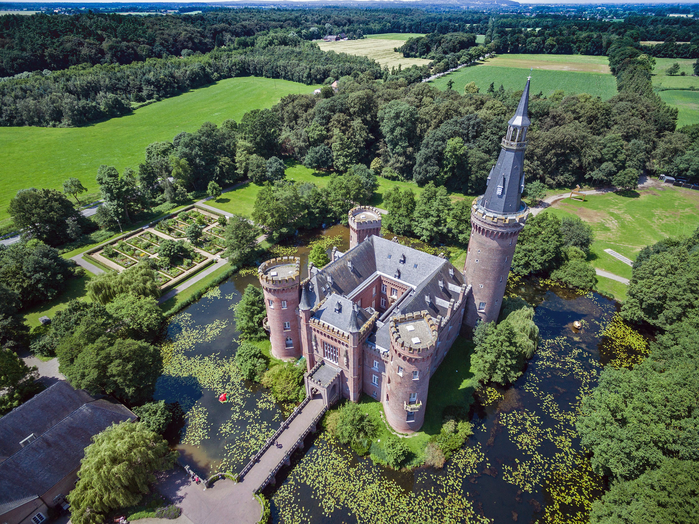 Luftbild vom Schloss Moyland